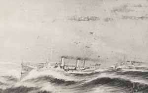 Litografía de A.A. Silvestrini, ARA Rosales.